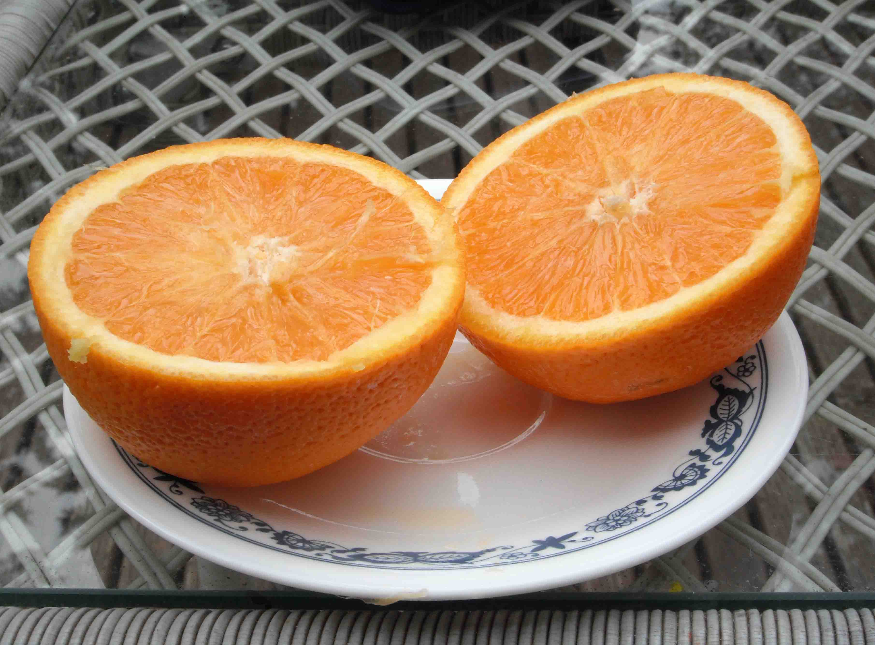 Template:An orange sliced in half.